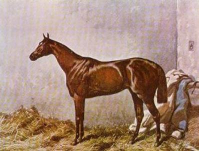 Painting of Hermit, British Thoroughbred racehorse and 19th century sire.